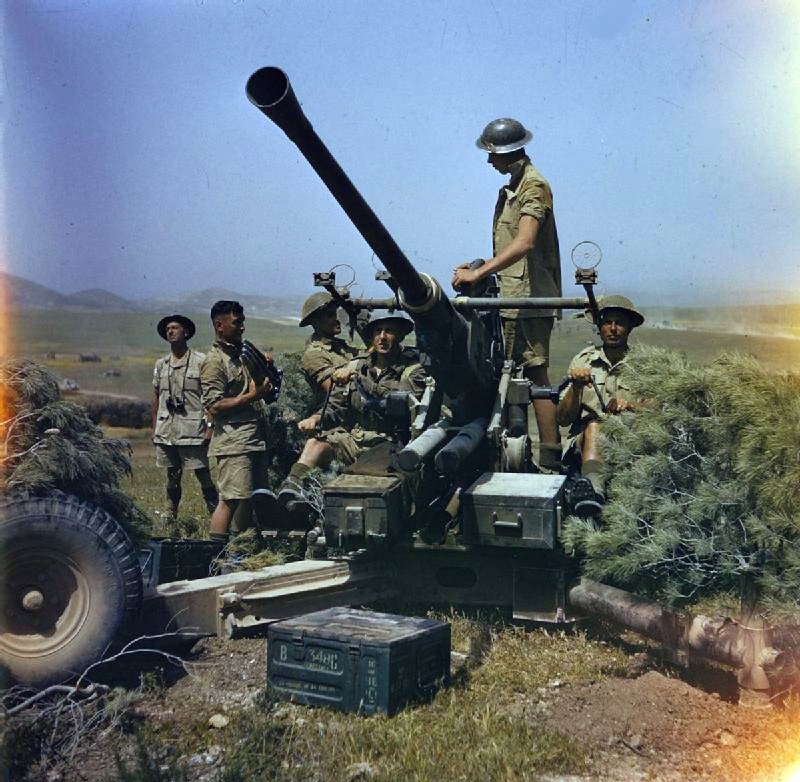 A British Army light 40 mm Bofors gun and crew which were in action on the Goubellat Plain near Medjez-el-Bab, against enemy aircraft during operations against Tunis.